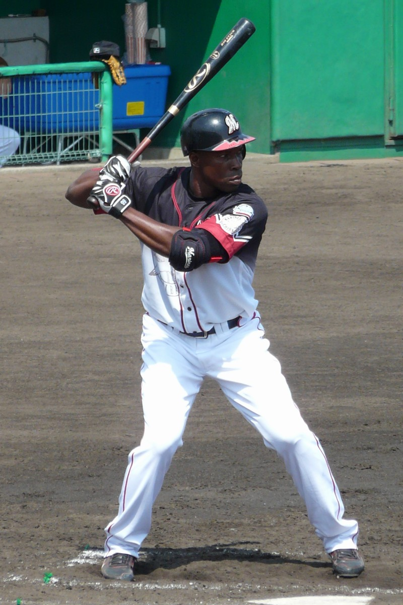 Juan Carlos Muniz, outfielder of the Chiba Lotte Marines, at Yokkaichi Kasumigaura Baseball Stadium.